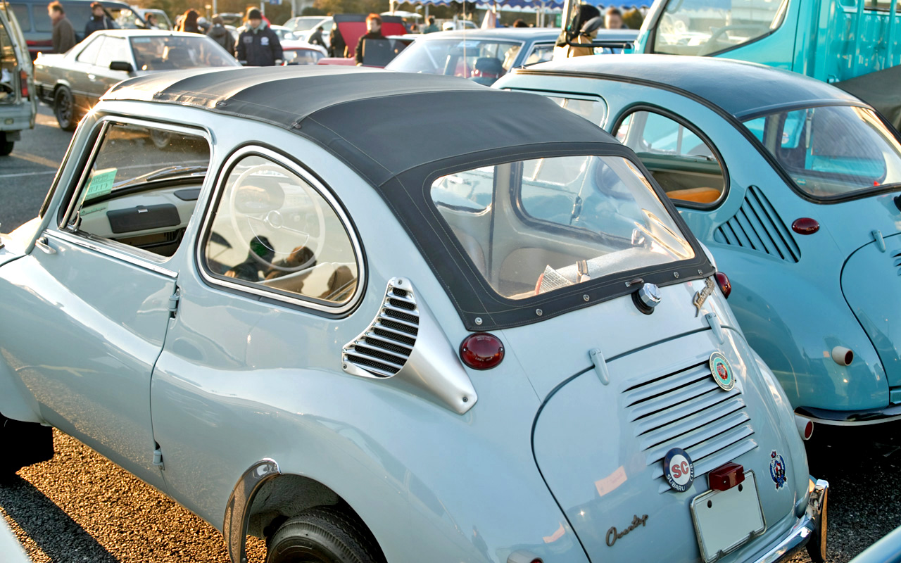 Subaru 360 Convertible with optional cast alloy air scoop